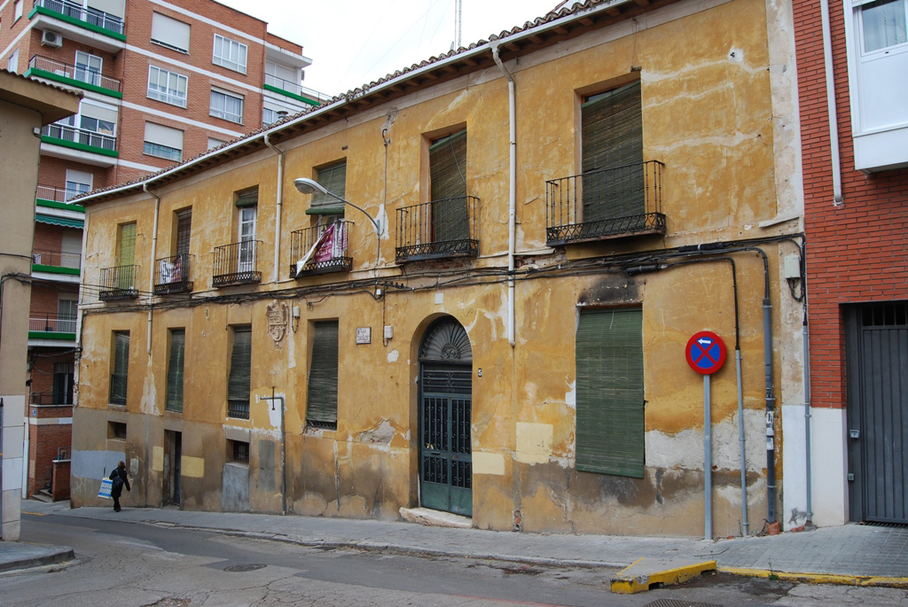 Miralrío Palace, in Dávalos Square in Guadalajara, Spain.